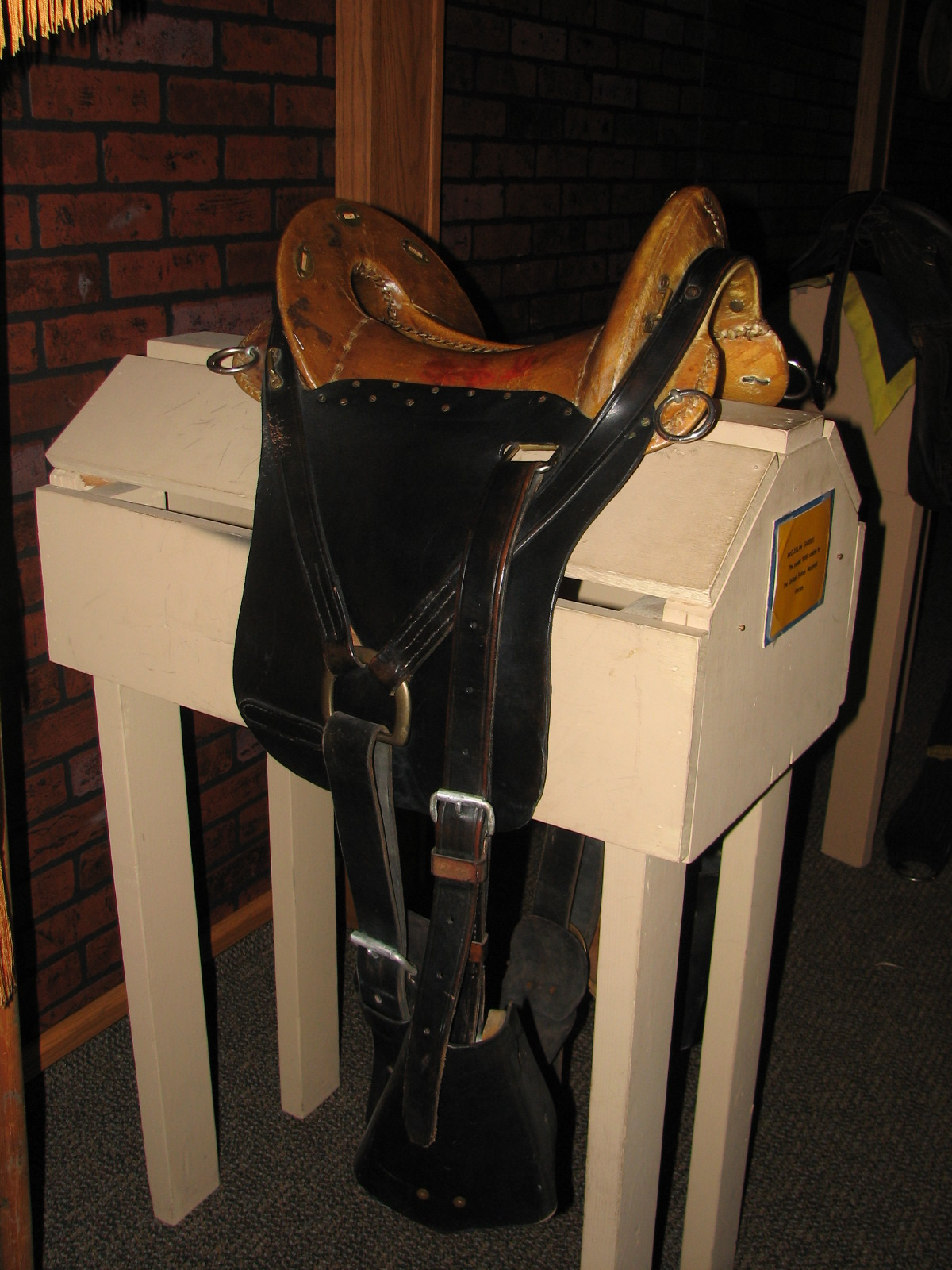 The McCellan Saddle was a riding saddle designed by George B. McClellan, a career Army officer in the U.S. Army, and adopted by the Army in 1859. The saddle continued in continuous use from the period of adoption until the U.S. Army's last horse cavalry and horse artillery was dismounted in World War Two. Even at that, the saddle has continued on in use with ceremonial units in the U.S. Army which continue to use horses. Simple raw hide left oblique view Photo taken at Ft Kearny Nebraska State Park